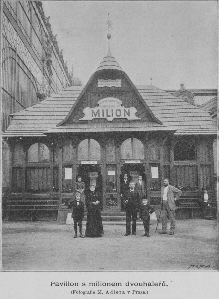 A pavillon showing one million of 2-heller coins on a Czech & Slavonic Ethnographic Exhibition in Prague 1895. It was highly advertised as a patriotic enterprise for the benefit of Ústřední matice školská (Central School Foundation). Subsequent journalistic investigations however proved that it was mainly benefiting its private owner, causing an embarassing controversy.